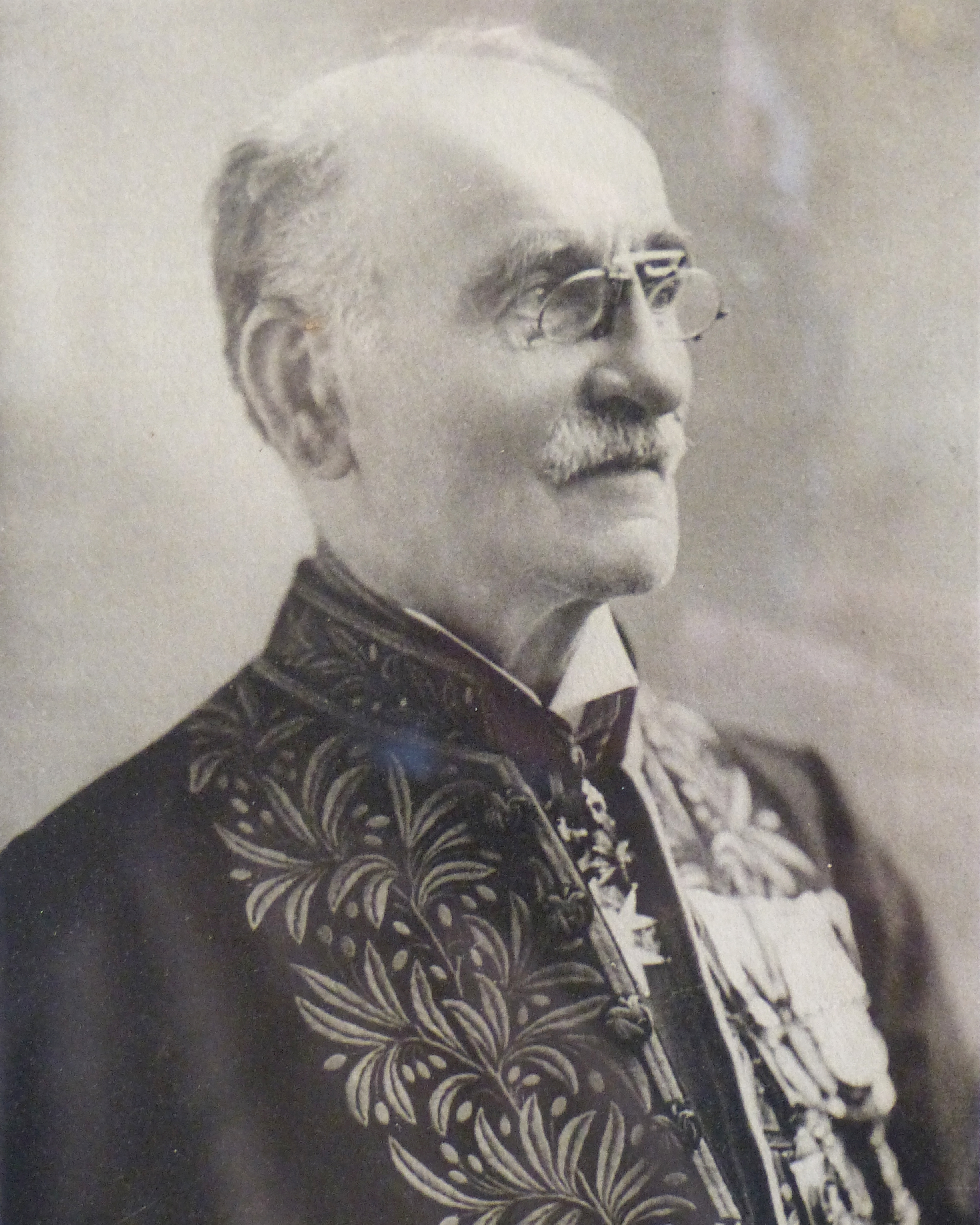 Avignon (Vaucluse, Provence, France), palace of the Roure, only and true husband of Jeanne Mellier known as Jeanne de Flandreysy, Émile Espérandieu, epigraphist and archaeologist, member of the Institut de France.